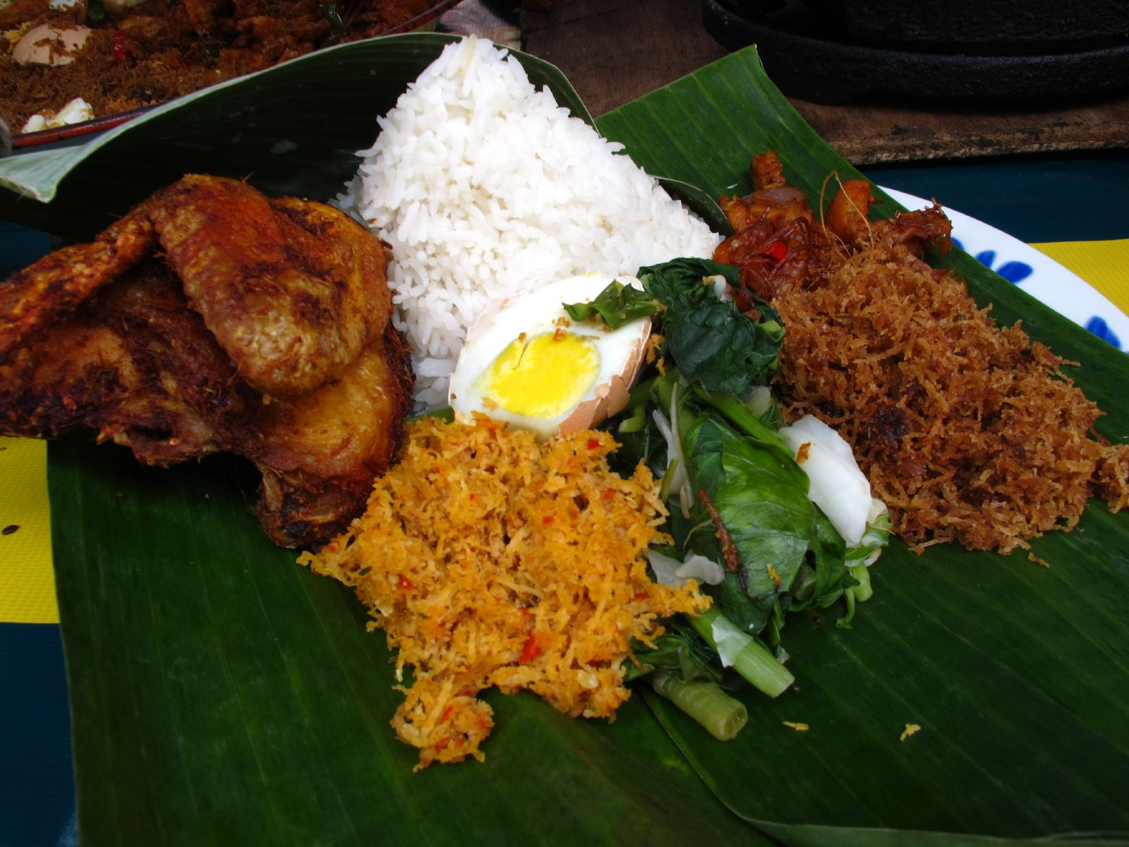 Nasi ambang/ambeng is a Javanese rice dish made up of spiced/fried/gravy chicken, chilli paste, serunding (Malaysian meat floss), vermicelli, tempe (Indonesian fermented soybean cake) and salted fish. It is really popular in Johor but not common in KL